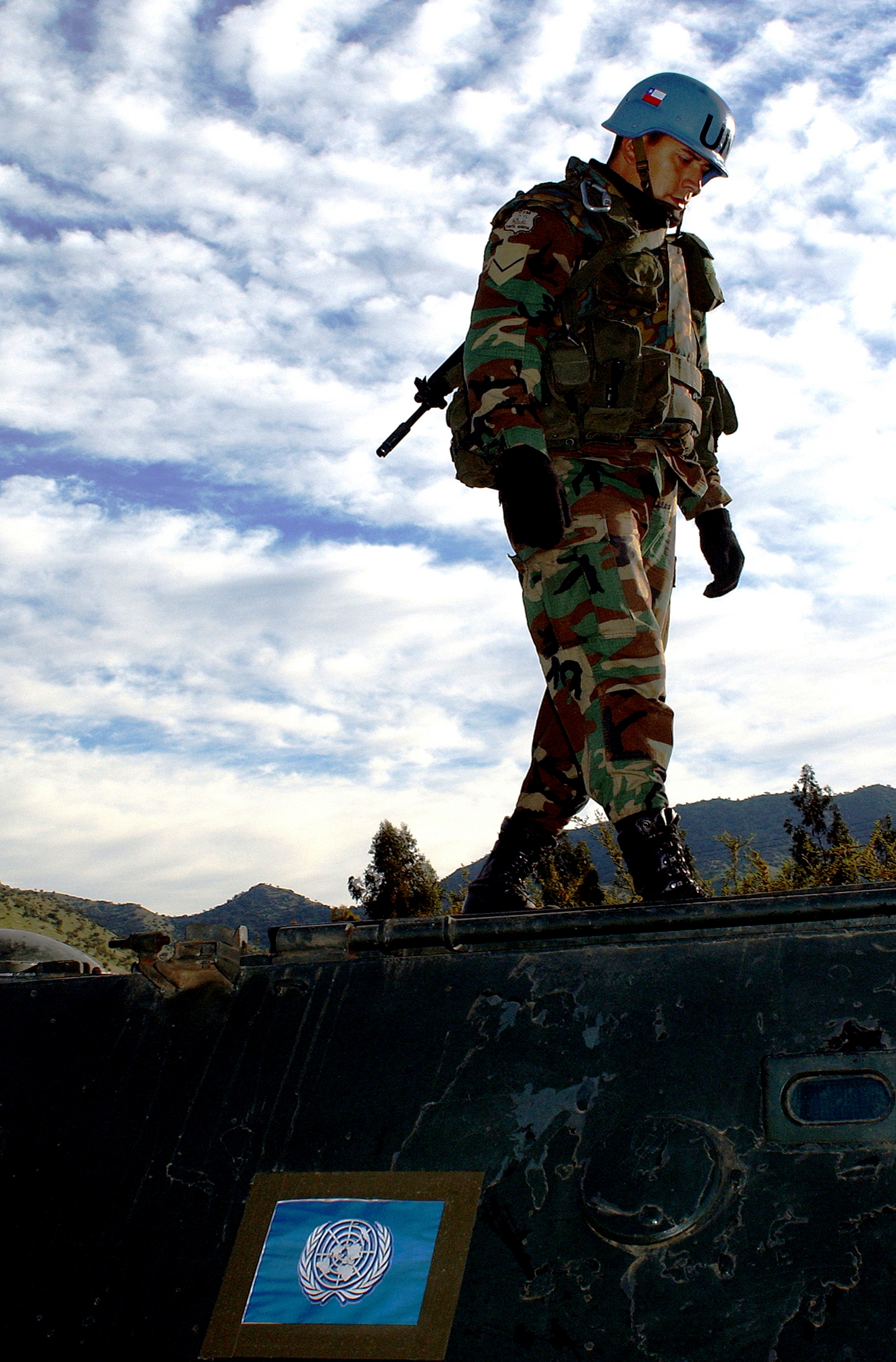 Armies from North, South, and Central America, including this Chilean soldier, train to become United Nations Peacekeepers during the three-week long exercise Cabanas 2002 in Santiago, Chile.